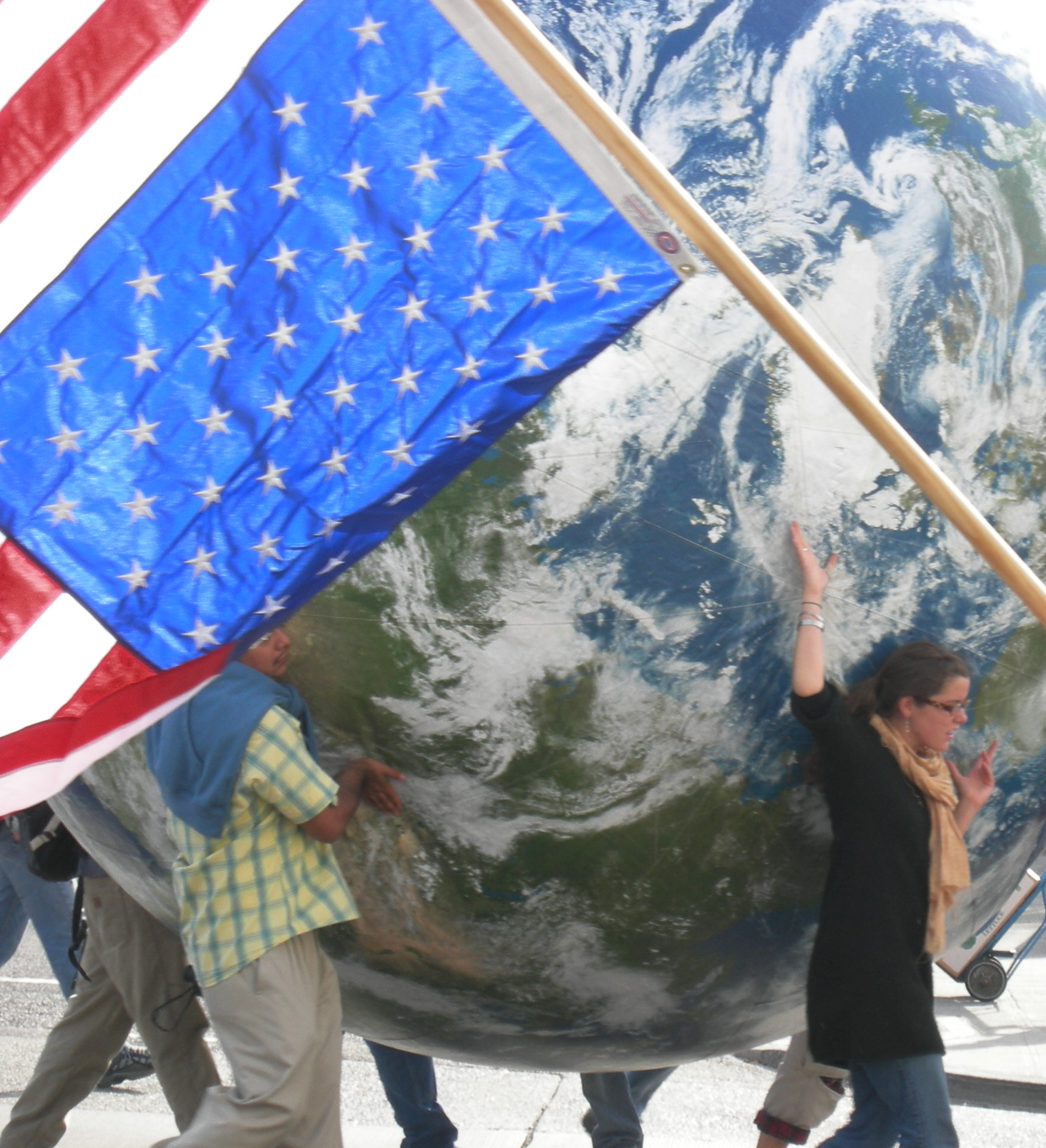 Giant globe and inverted U.S. flag (a signal of distress), anti-war march, Seattle, Washington, 27 October 2007.